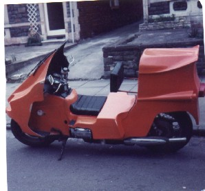 Feet Forwards motorcycle, created by Malcolm Newell, on street in Bristol